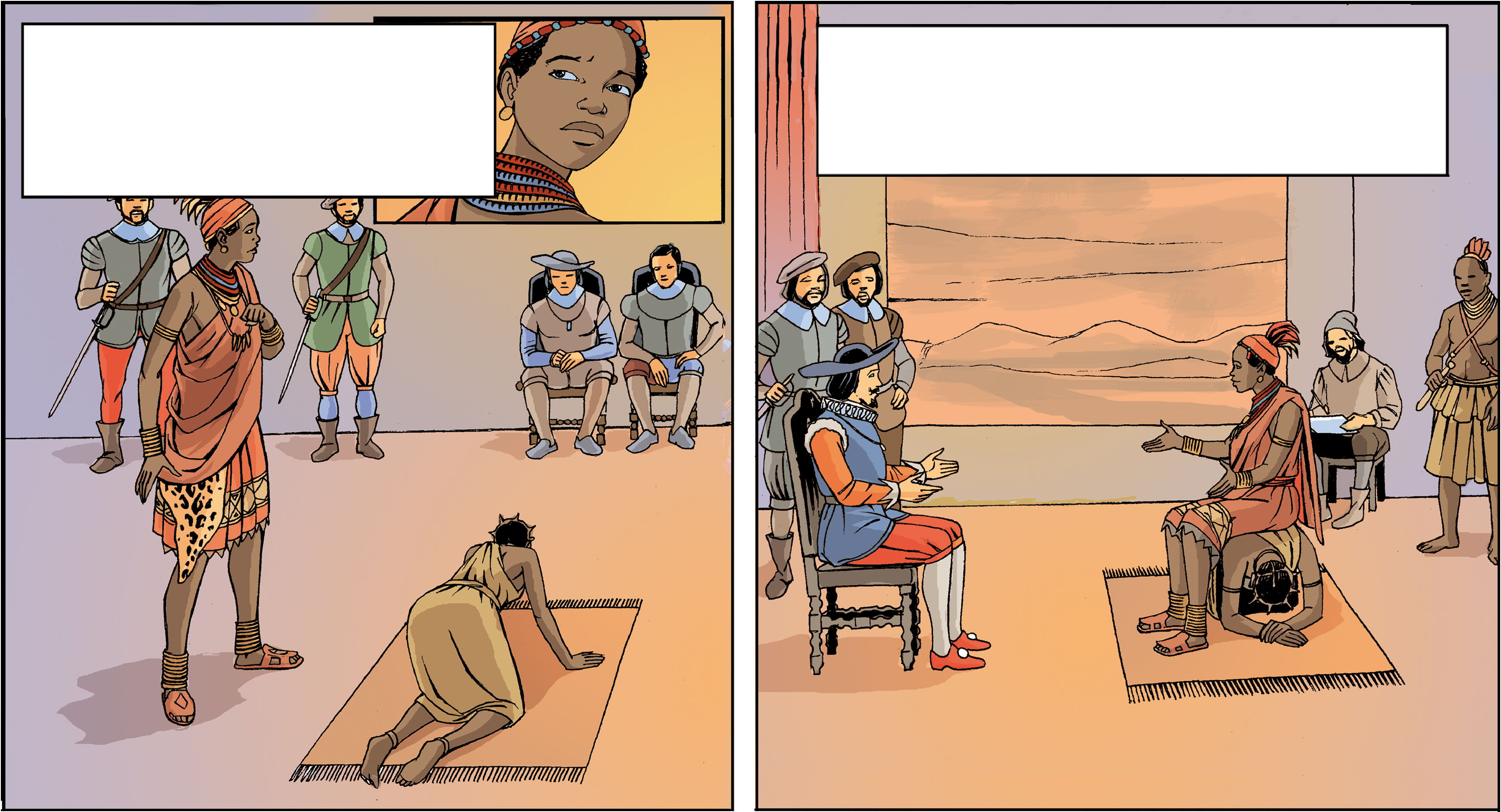 Taken from Nzinga Mbandi: Queen of Ndongo and Matamba from the UNESCO series on women in African history. Illustrations by Pat Masioni